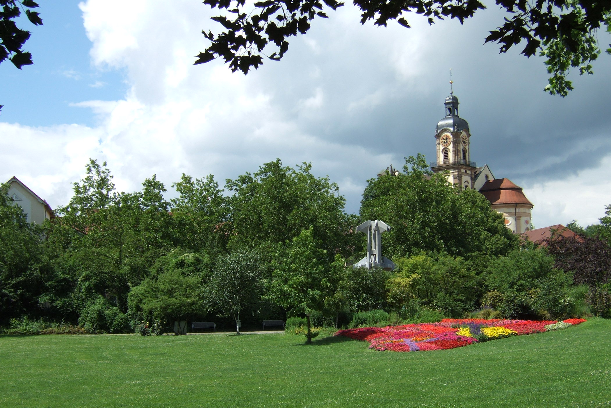 City Park of Neckarsulm / Germany